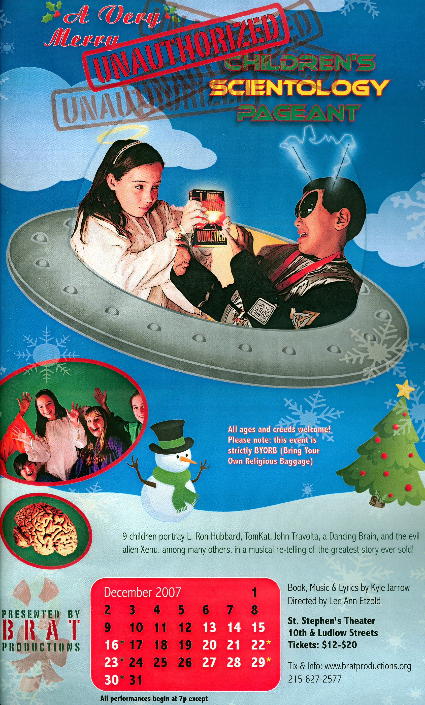 A Very Merry Unauthorized Children's Scientology Pageant, promotional poster for the 2007 production by Brat Productions. Text from poster: A Very Merry Unauthorized Children's Scientology Pageant All ages and creeds are welcome! Please note: this event is strictly BYORB (Bring Your Own Religious Baggage) 9 children portray L. Ron Hubbard, TomKat, John Travolta, a Dancing Brain, and the evil alien Xenu, among many others, in a musical re-telling of the greatest story ever told! Presented by Brat Productions Book, Music & Lyrics by Kyle Jarrow Directed by Lee Ann Etzold St. Stephen's Theater 10th & Ludlow Streets Tickets $12-$20 Tix & Info: 215-627-2577